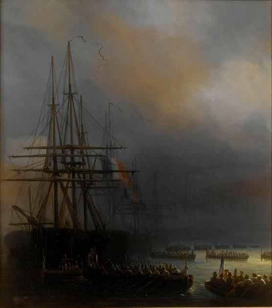 Battle of Vera-Cruz (Mexico) Vice-Admiral Baudin expedition: landing troops leave ships and head back to Earth (night of December 5, 1838). The prince of Joinville leads the landing of French troops who are going to seize the city.